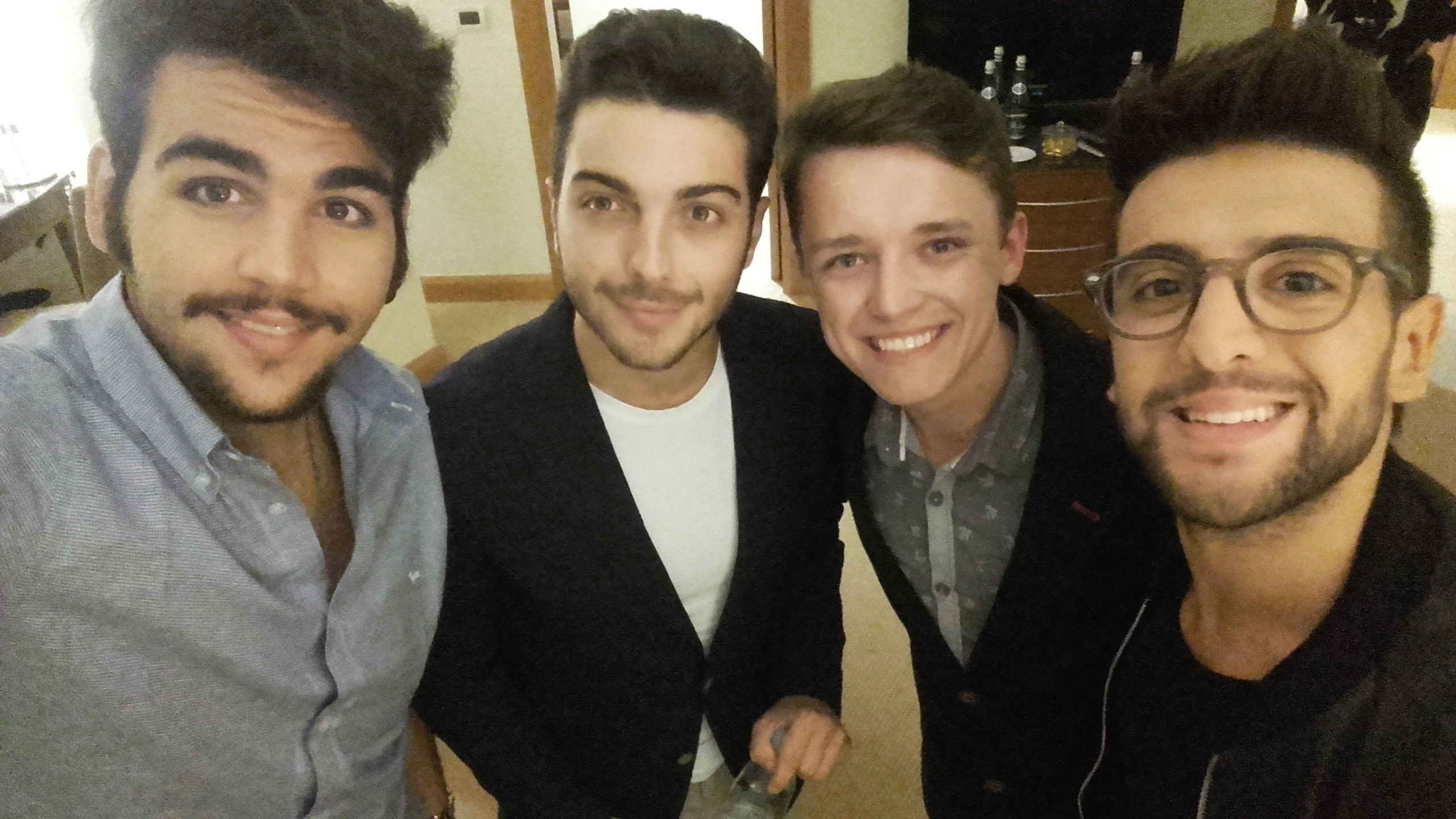 Italian trio Il Volo and Polish journalist Sergiusz Królak in September 2016.